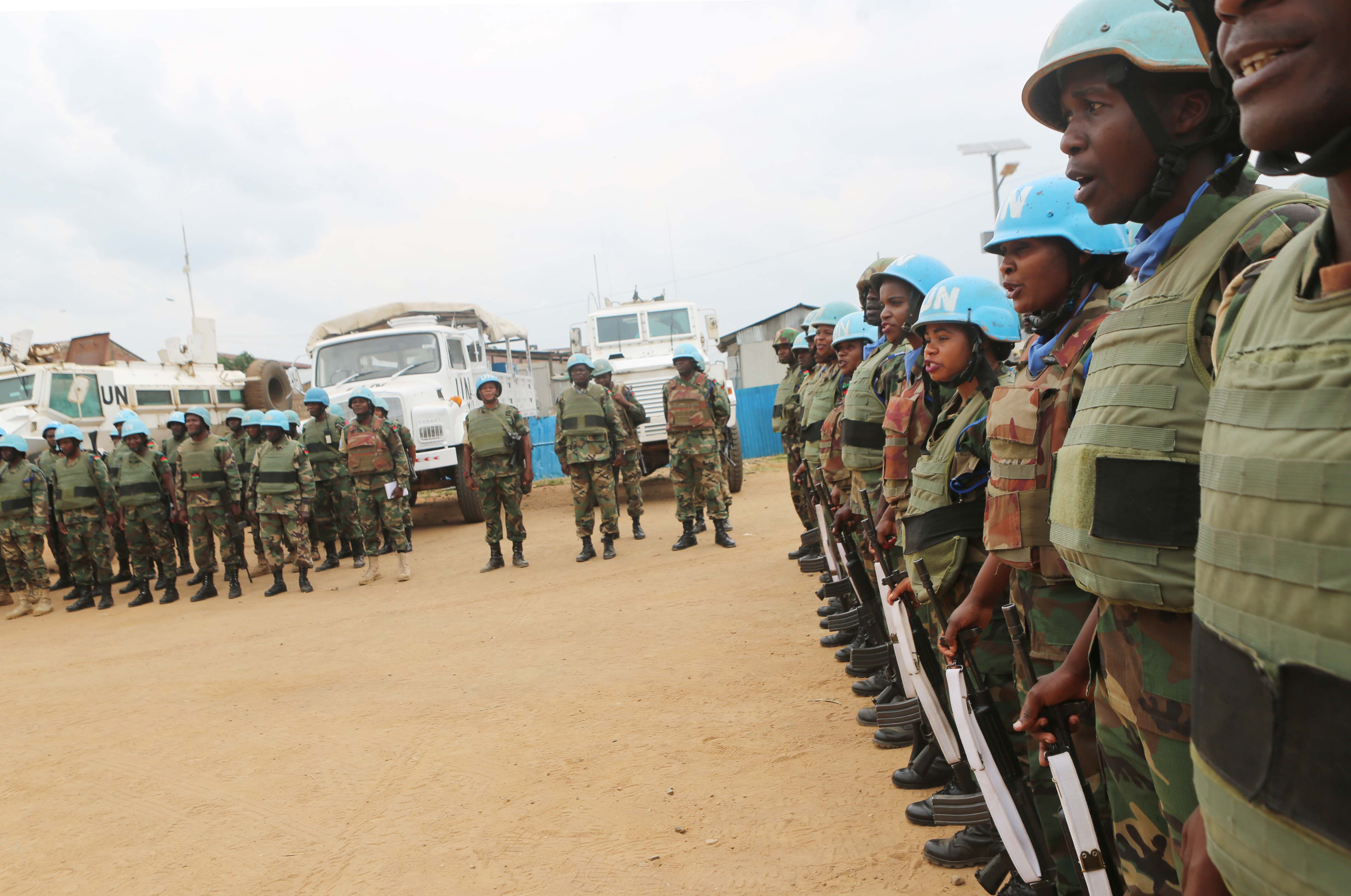 Malawian troops serving as UN peacekeepers in Beni, Democratic Republic of the Congo